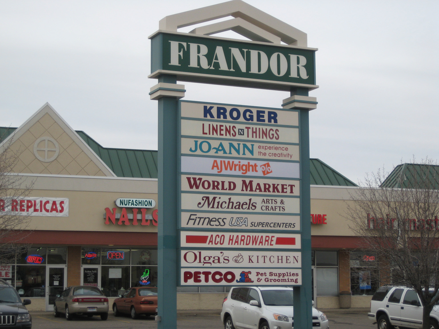 Frandor Mall Shopping Center entrance sign along North Clippert Street in Lansing, Michigan.